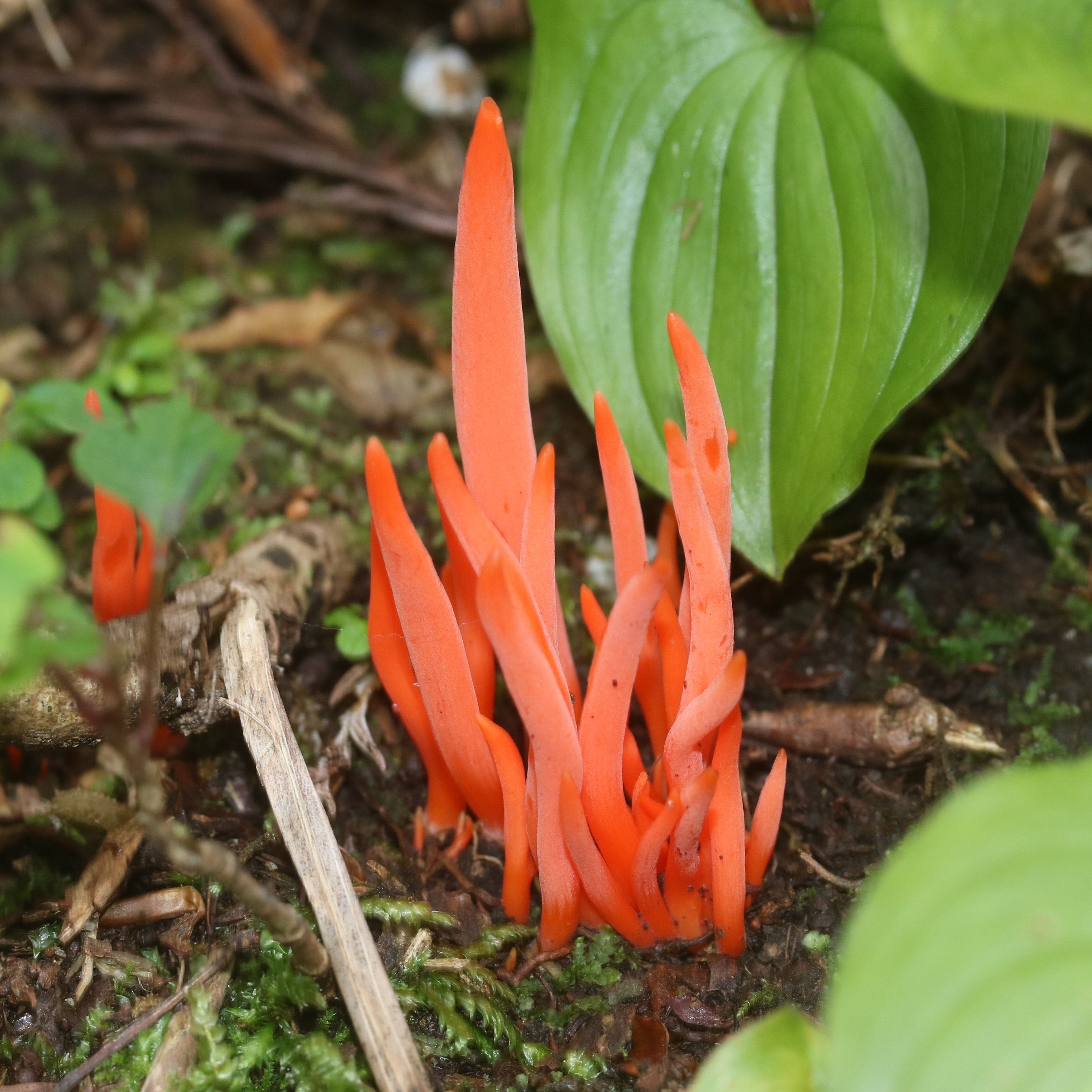 Clavulinopsis miyabeana in Mount Tsurugi, Kamiichi, Toyama prefecture, Japan.